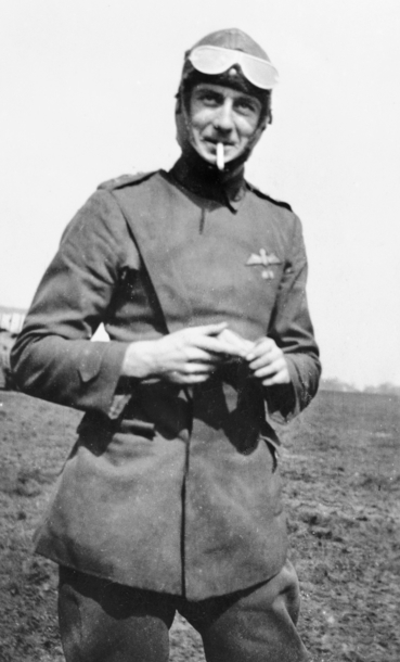 Ottoman Empire: Palestine. Informal portrait of Lieutenant (Lt) Adrian Trevor Lindley Cole, MC, Australian Flying Corps, of Malvern, Vic, wearing his flying suit. Lt Cole enlisted on 28 January 1916 and embarked from Melbourne aboard HMAT Orsova on 16 March 1916 as a corporal with B Flight, No 1 Squadron, Australian Flying Corps. He was promoted to 2nd Lieutenant on 15 June 1916, graduated as Flying Officer on 7 November 1916, Lieutenant on 7 February 1917 and Captain on 15 August 1917. 2nd Lt Cole was awarded the Military Cross on 16 August 1917 and later the Distinguished Flying Cross on 8 February 1919. He enlisted with the RAAF on 31 March 1921 and as a Group Captain he was awarded a Commander of the Order of the British Empire on 11 May 1937. He served with the RAAF during the Second World War and was awarded the Distinguished Service Order on 2 October 1942. He was discharged with the rank of Air Commodore on 17 April 1946.